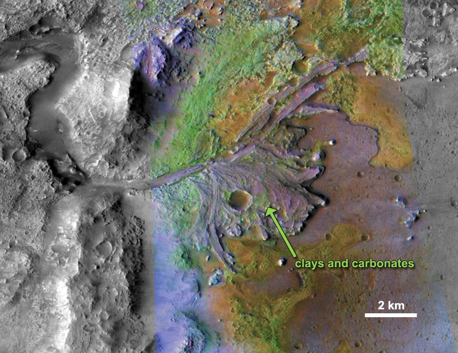 Chemical Alteration by Water, Jezero Crater Delta - On ancient Mars, water carved channels and transported sediments to form fans and deltas within lake basins. Examination of spectral data acquired from orbit show that some of these sediments have minerals that indicate chemical alteration by water. Here in Jezero Crater delta, sediments contain clays and carbonates. The image combines information from two instruments on NASA's Mars Reconnaissance Orbiter,the Compact Reconnaissance Imaging Spectrometer for Mars and the Context Camera. (Reference: Ehlmann et al. 2008.)